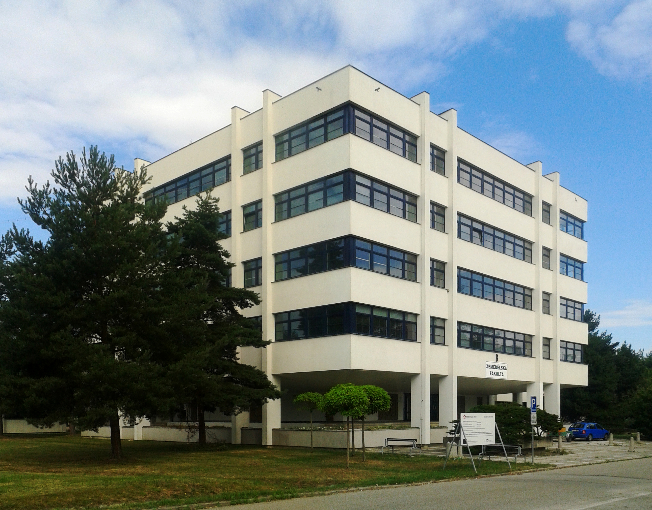 One of the buildings used by the Faculty of Agriculture of the University of South Bohemia in České Budějovice, Czech Republic, Studentská Street No 1668.